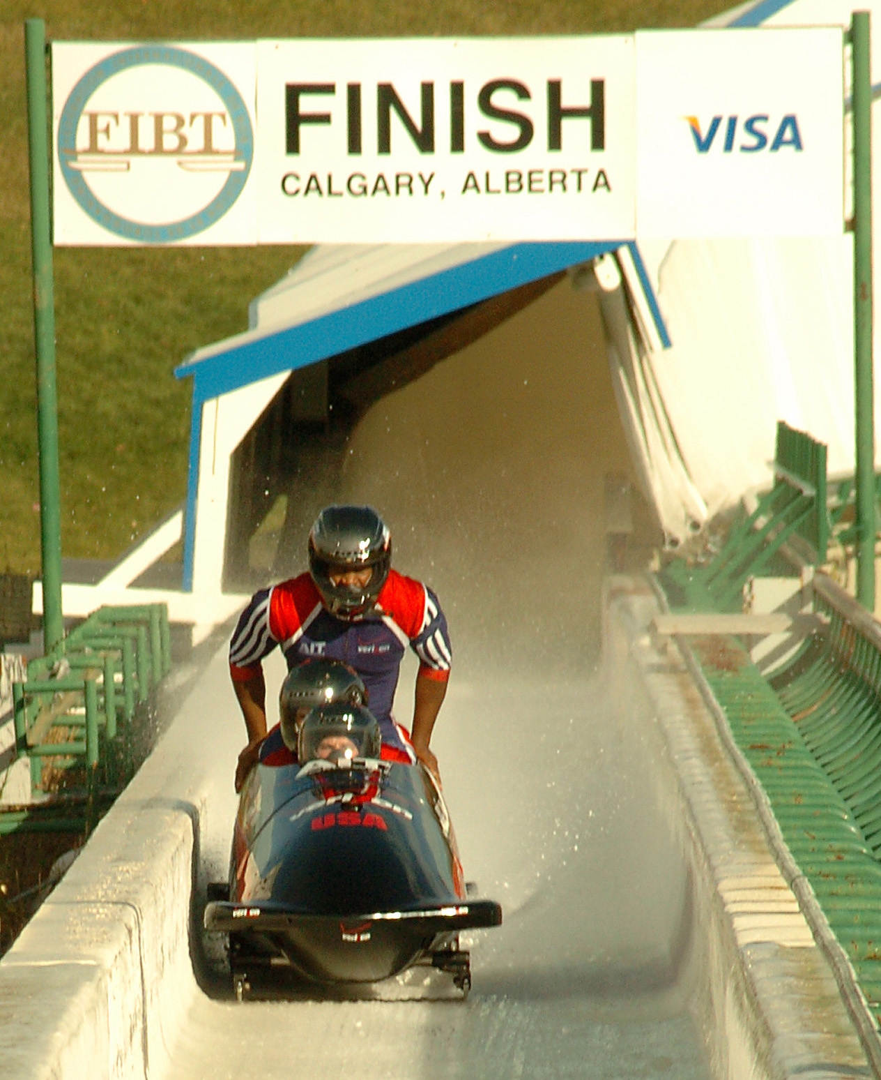 Steve Holcomb, along with teammates Ivan Radcliff, Brock Kreitzburg and Curt Tomasevicz cross the bobsled track finish line at Canada Olympic Park in Calgary, Canada, during the final day of U.S. National Bobsled Team trials. Holcomb was named the U.S. national four-man bobsled champion Images on the Army Web site are cleared for release and are considered in the public domain. Request credit be given as "Photo Courtesy of U.S. Army" and credit to individual photographer whenever possible.